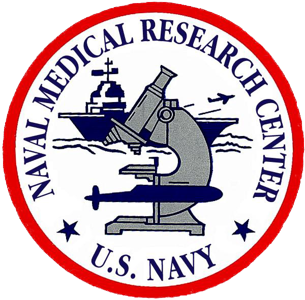 Logo of the U.S. Naval Medical Research Center